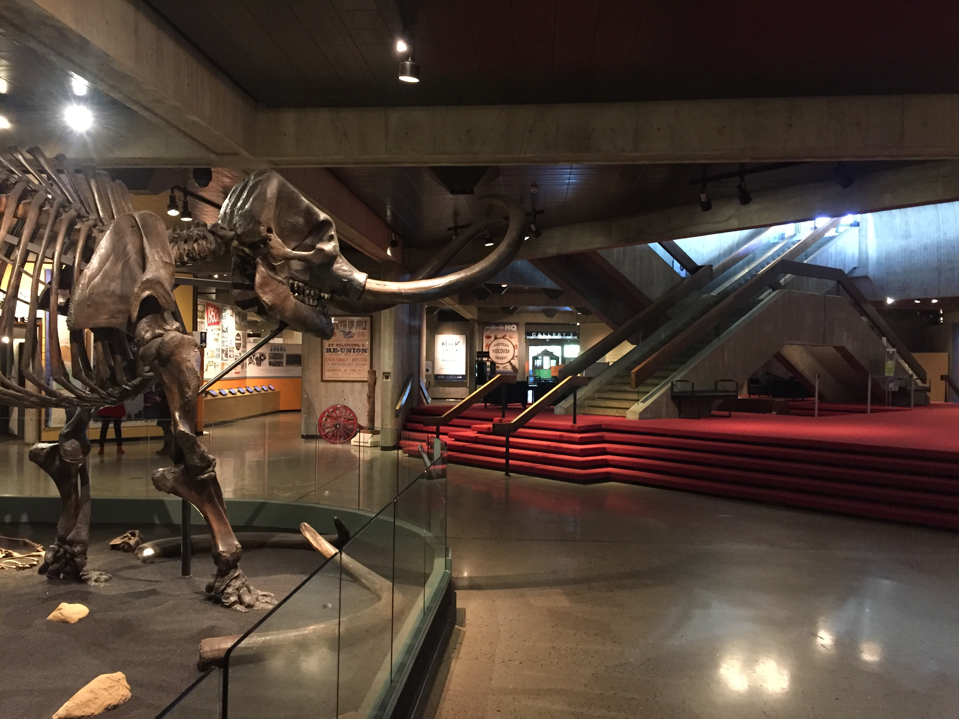 Ohio History Center in Columbus, Ohio